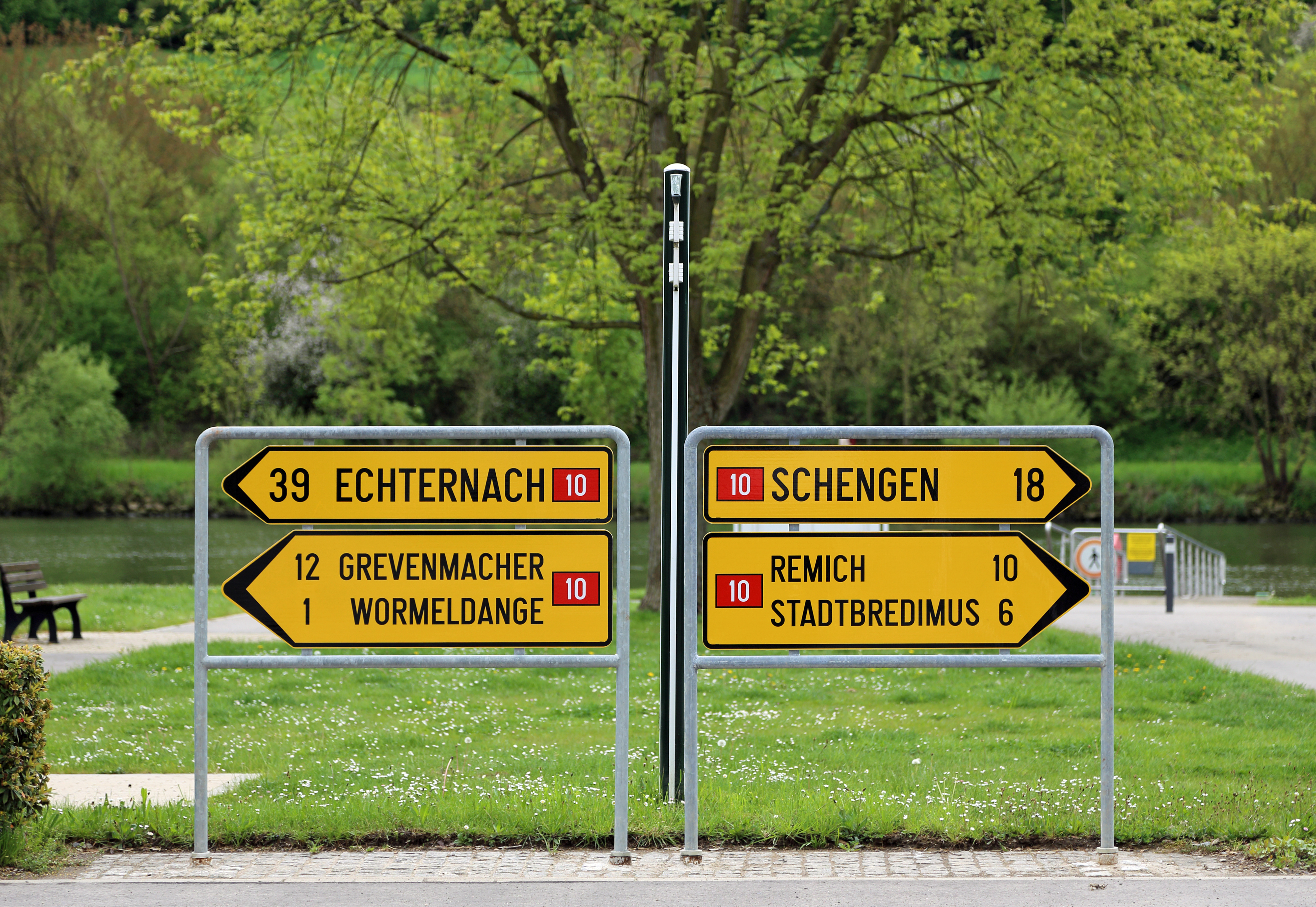 Ehnen (municipality of Wormeldange, Grand Duchy of Luxembourg): directional road signs on the Route du Vin